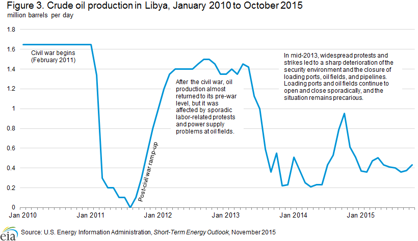 Crude oil production in Libya, January 2010 to October 2015